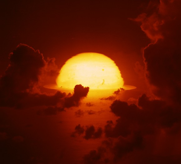 Operation Redwing - Huron shot.